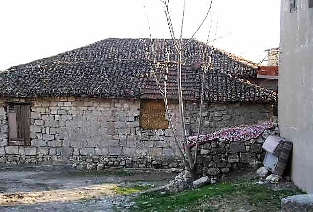 Buildings from first Muslim inhibitants made by face stone in Kayabaşı